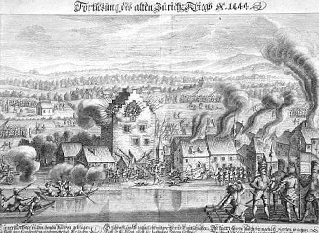 Greifensee (ZH) : Siege of Greifensee castle during Old Zurich War in May 1444.